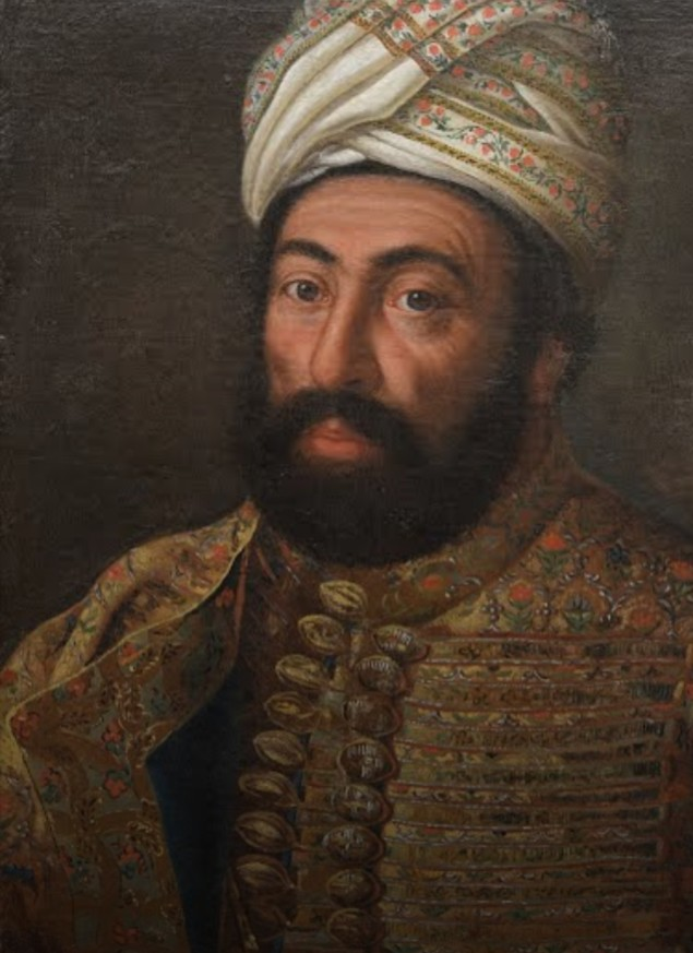 Portrait of King Teimuraz II